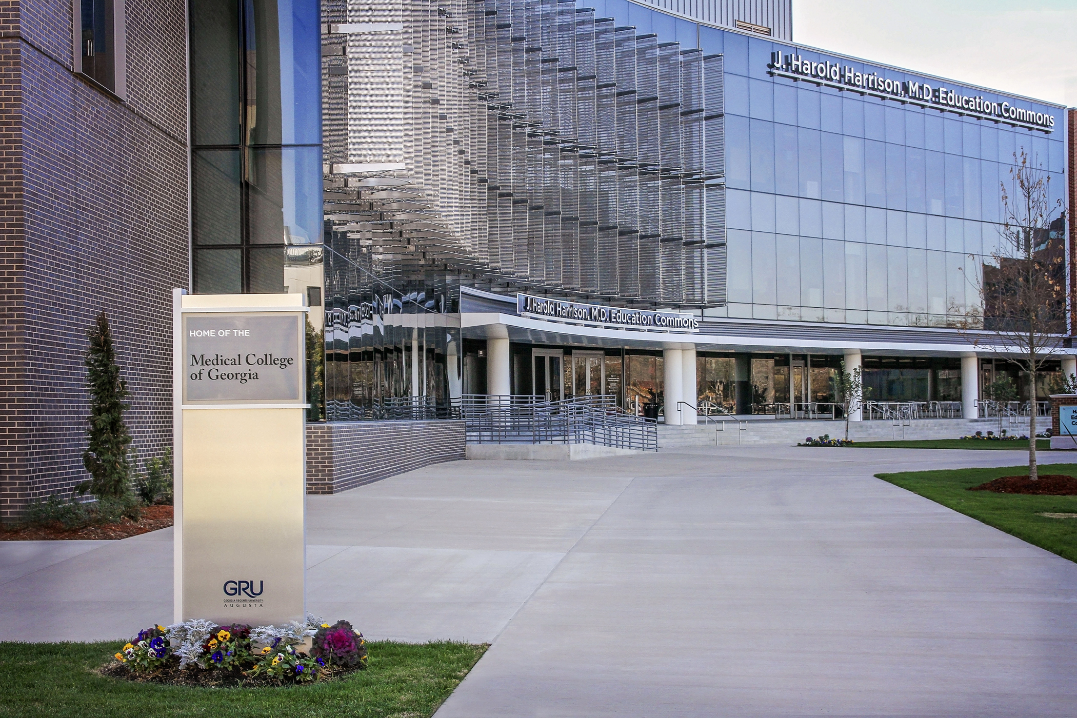 The new educational home of MCG, the J. Harold Harrison, MD, Education Commons, opened in 2014 and features a state-of-the-art simulation laboratory, auditoriums, and classroom space for up to 300 students.